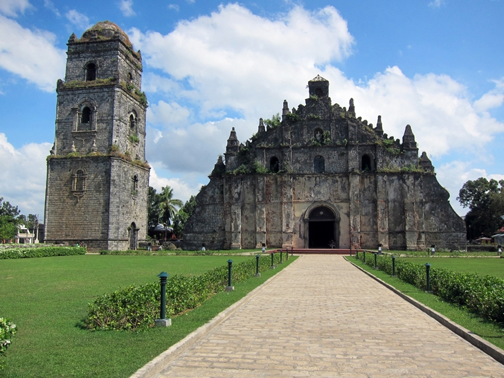 Paoay Church (also known as the St. Augustine Church in Paoay) is a historical church located in Paoay, Ilocos Norte. During the Philippine Revolution in 1898, its coral stone bell tower was used by the Katipuneros as an observation post. Paoay Church is part of the UNESCO World Heritage List. It currently is a property of the Diocese of Laoag, Ilocos Norte.